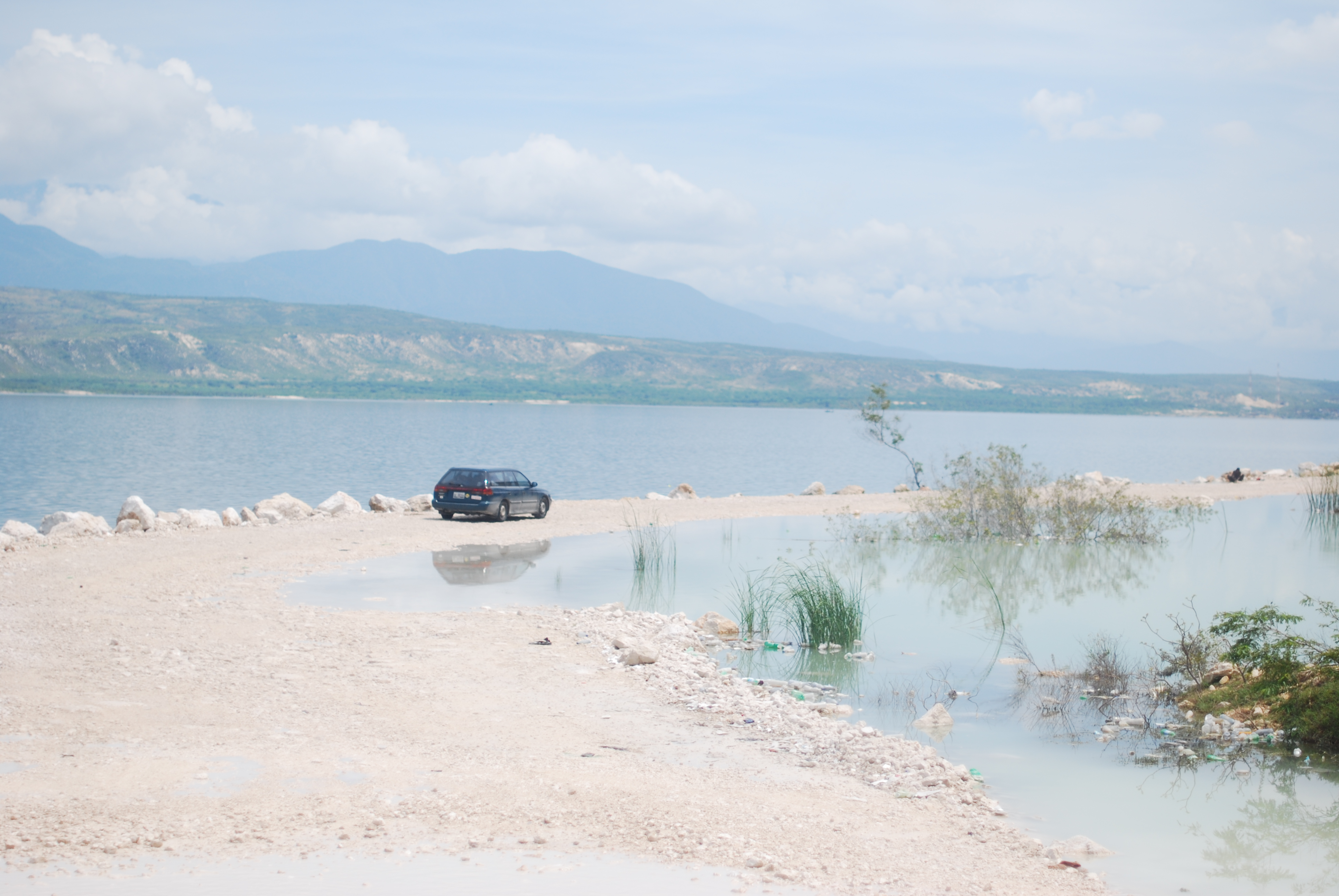 The main road from Jimaní, Dominican Republic to Port-au-Prince, Haiti. The pathway is partially flooded by the Lake Azuei.